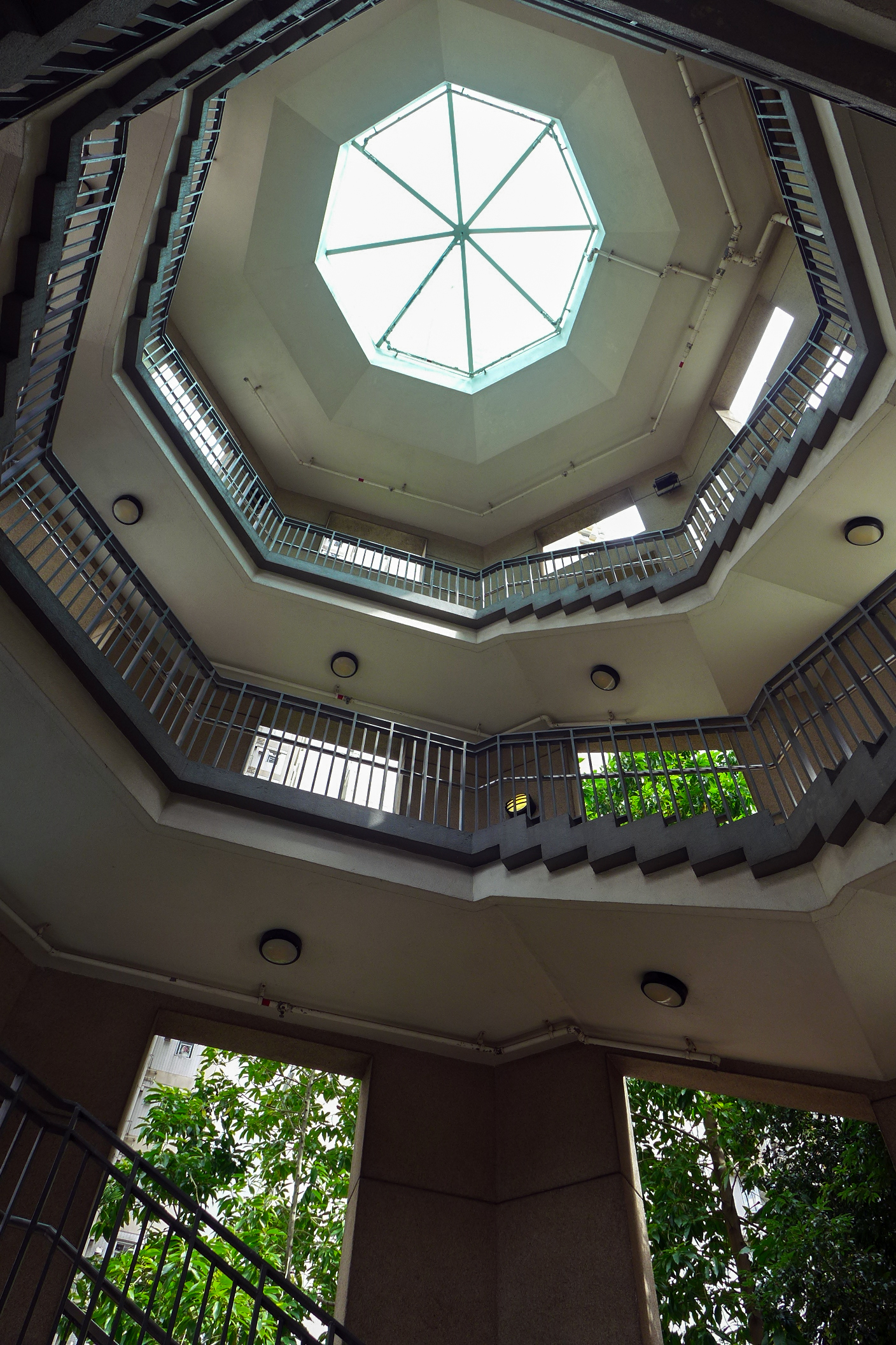 Yu Chui Court Ancillary Facilities Block stairs